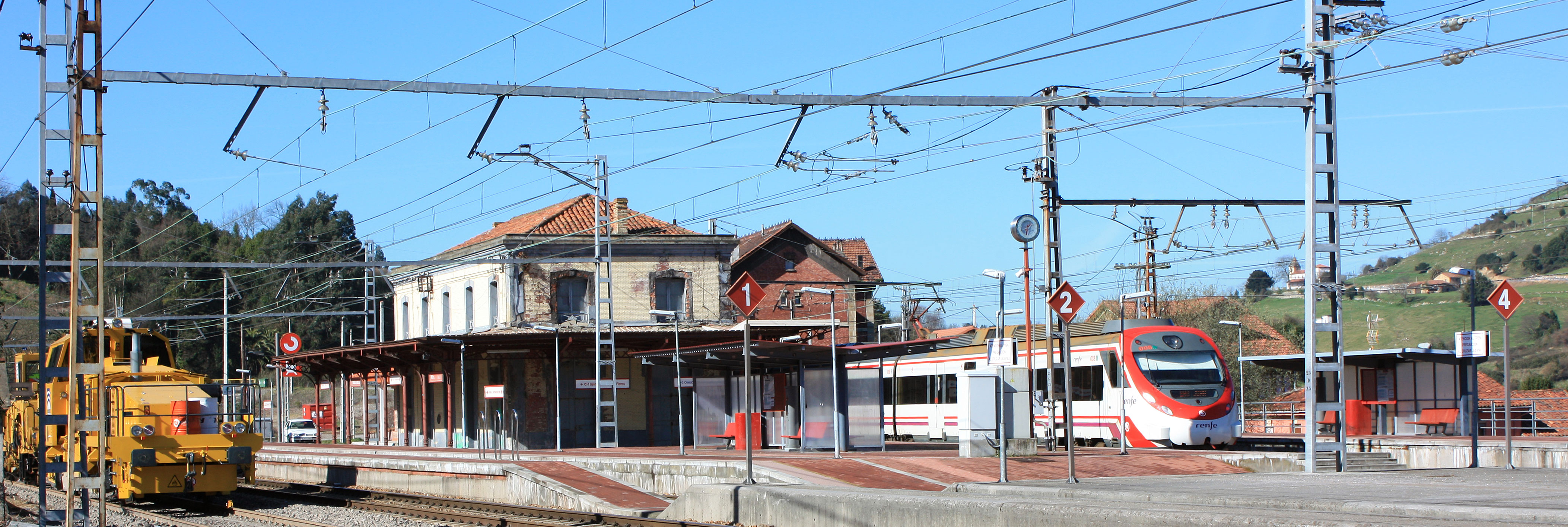 Train Station of Villabona de Asturias (Spain)